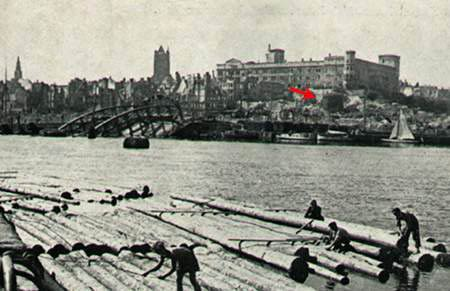 Ruins ot the Virgin Tower in Szczecin in 1948